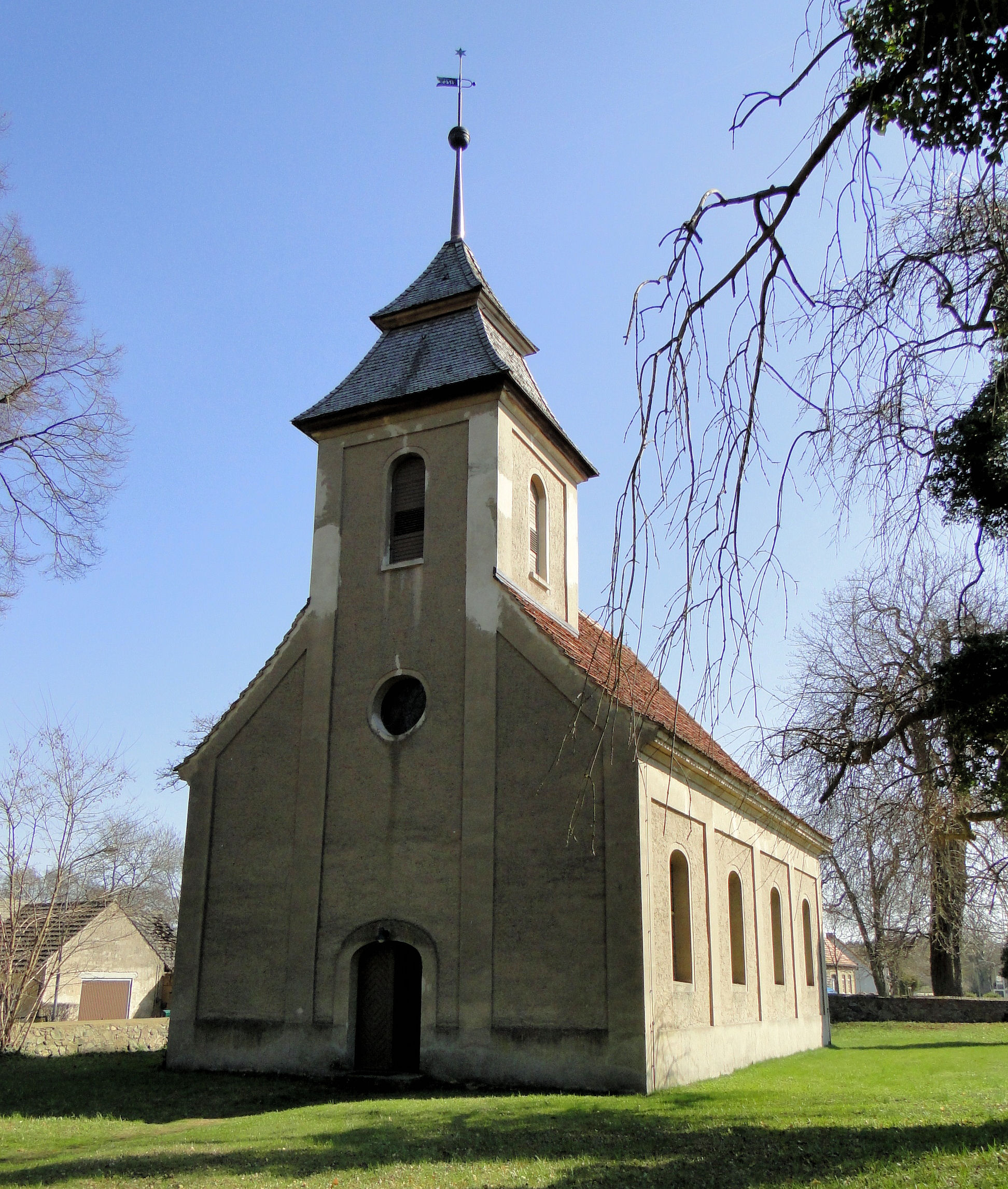 Church in Diemitz, disctrict Mecklenburg-Strelitz, Mecklenburg-Vorpommern, Germany